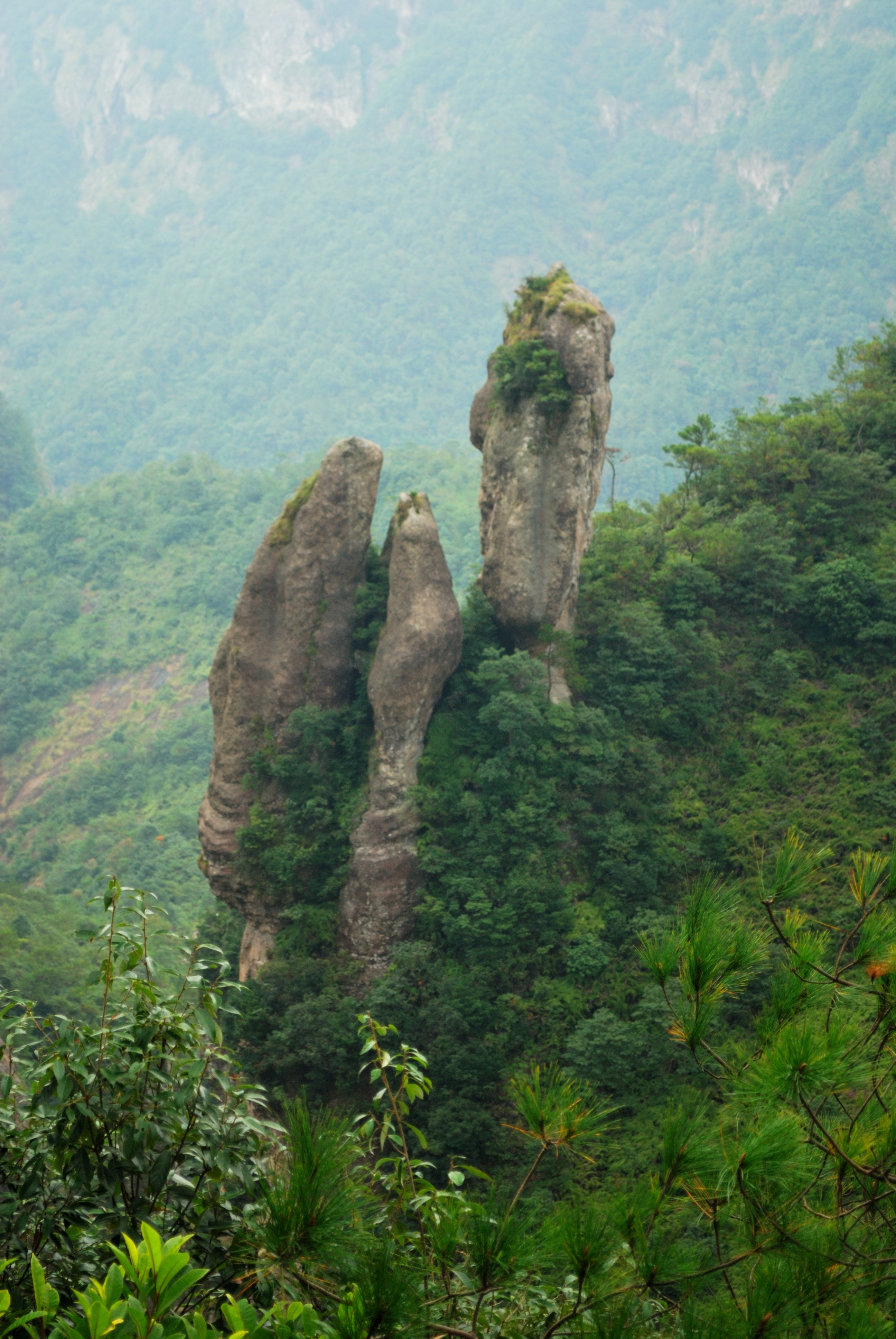 Rock Formation at the Yandang Mountain in Zhejiang, China People's Republic.